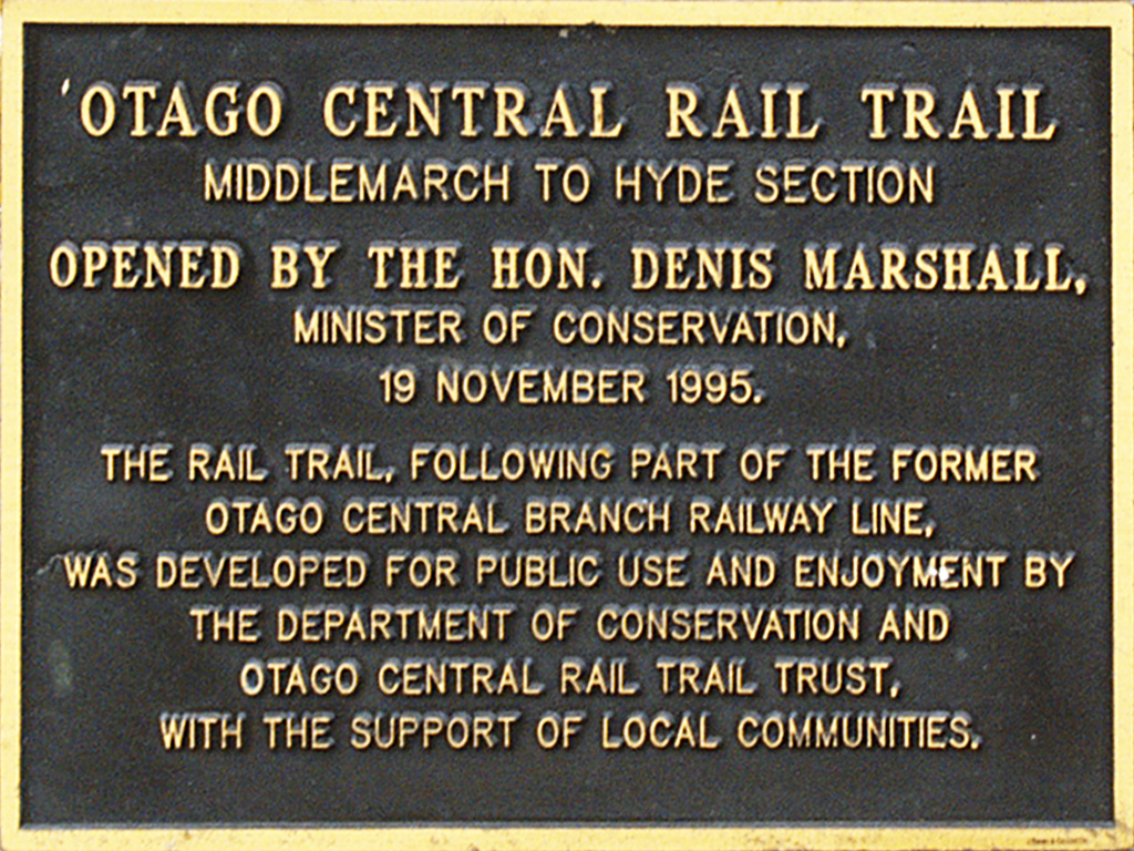 Memorial plaque at the start point of Otago Central Rail Trail, Middlemarch, Otago, New Zealand